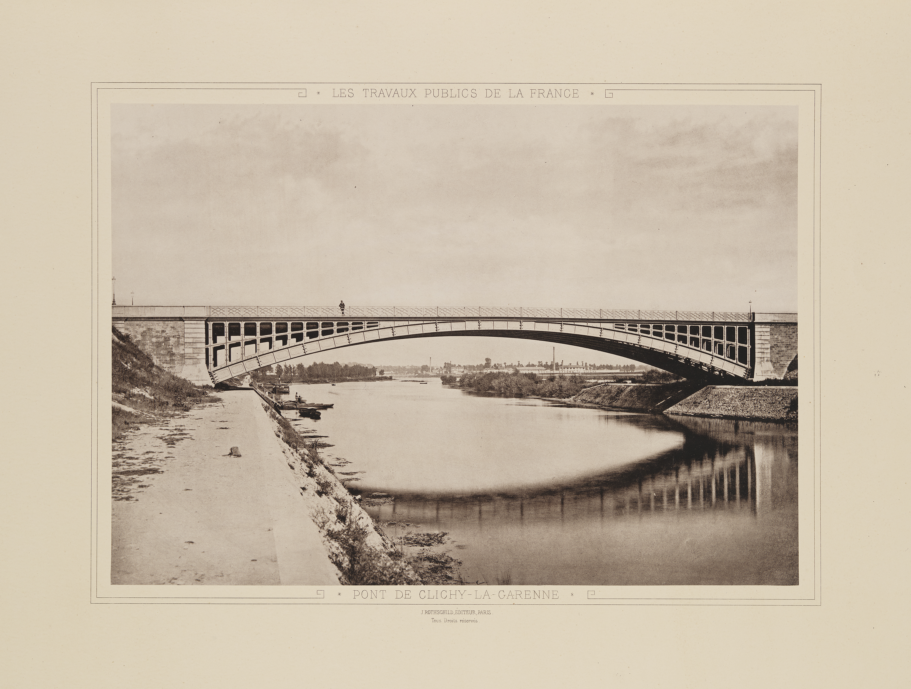 Title: Pont de Clichy-la-Garenne Alternative Title: Clichy-la Garenne Bridge Creator: Unknown Date: 1883 Part Of: Les Travaux Publics de la France, Tome Premier: Routes et Ponts Place: Clichy, France Physical Description: 1 photographic print: collotype; 26 x 35 cm on 40 x 56 cm mount File: vault_folio_2_ta71_a4_1883_1_44_opt.jpg Rights: Please cite Southern Methodist University, Central University Libraries, DeGolyer Library when using this image file. A high-quality version of this file may be obtained for a fee by contacting . For more information, see